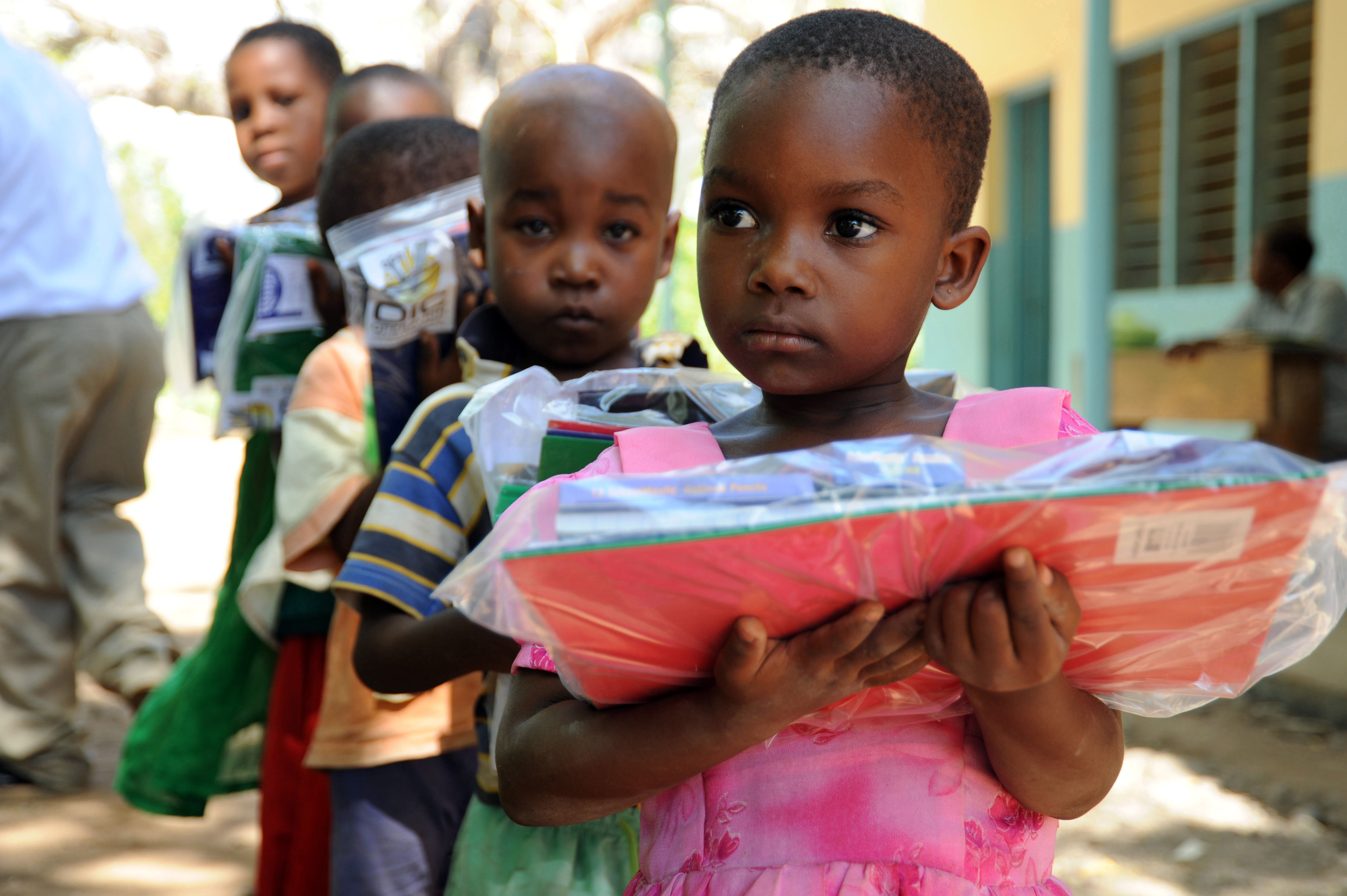 TANGA, Tanzania (Nov. 2, 2009) A child holds a packet of school supplies at the Tongoni Primary School in Tanga, Tanzania. Teachers, local government officials and Sailors assigned to Maritime Civil Affairs Team (MCAT) 214 distributed the school supplies that were provided by People to People International. MCAT-214 is assigned to Combined Joint Task Force-Horn of Africa. (U.S. Navy photo by Mass Communication Specialist 1st Class Jonathan Kulp/Released)